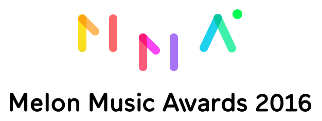 Logo of the Melon Music Awards 2016.